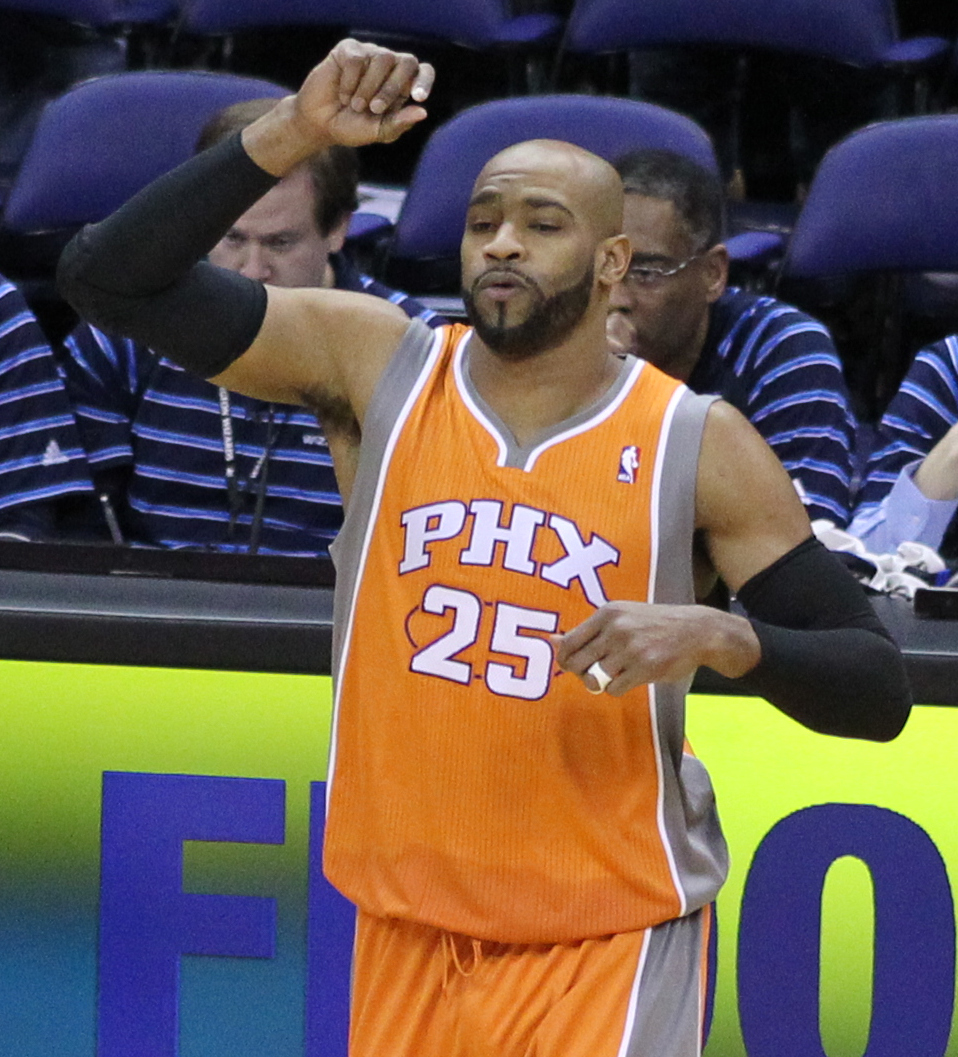 Washington Wizards v/s Phoenix Suns January 21, 2011